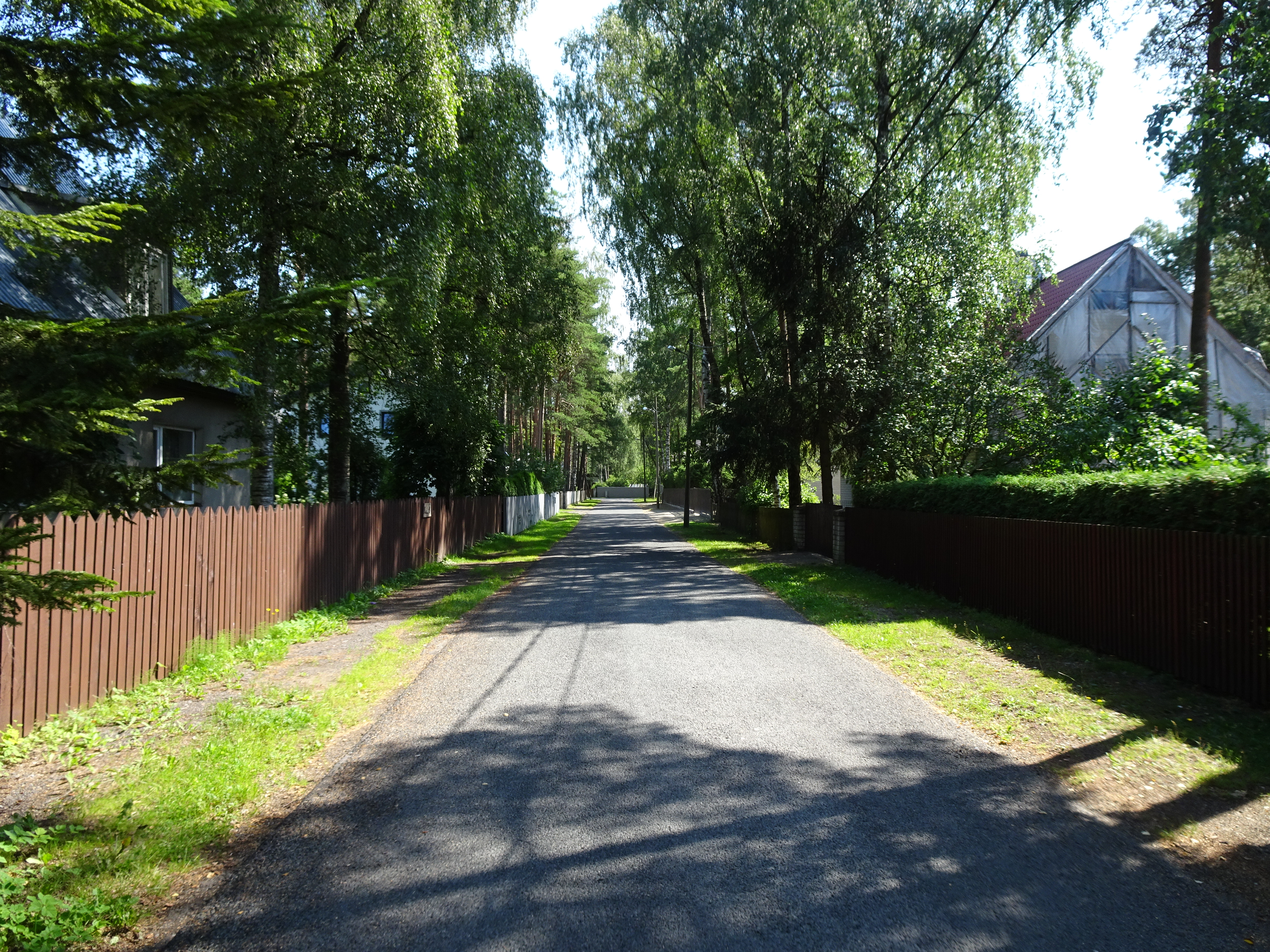 Kaasiku Street in Tallinn, Estonia